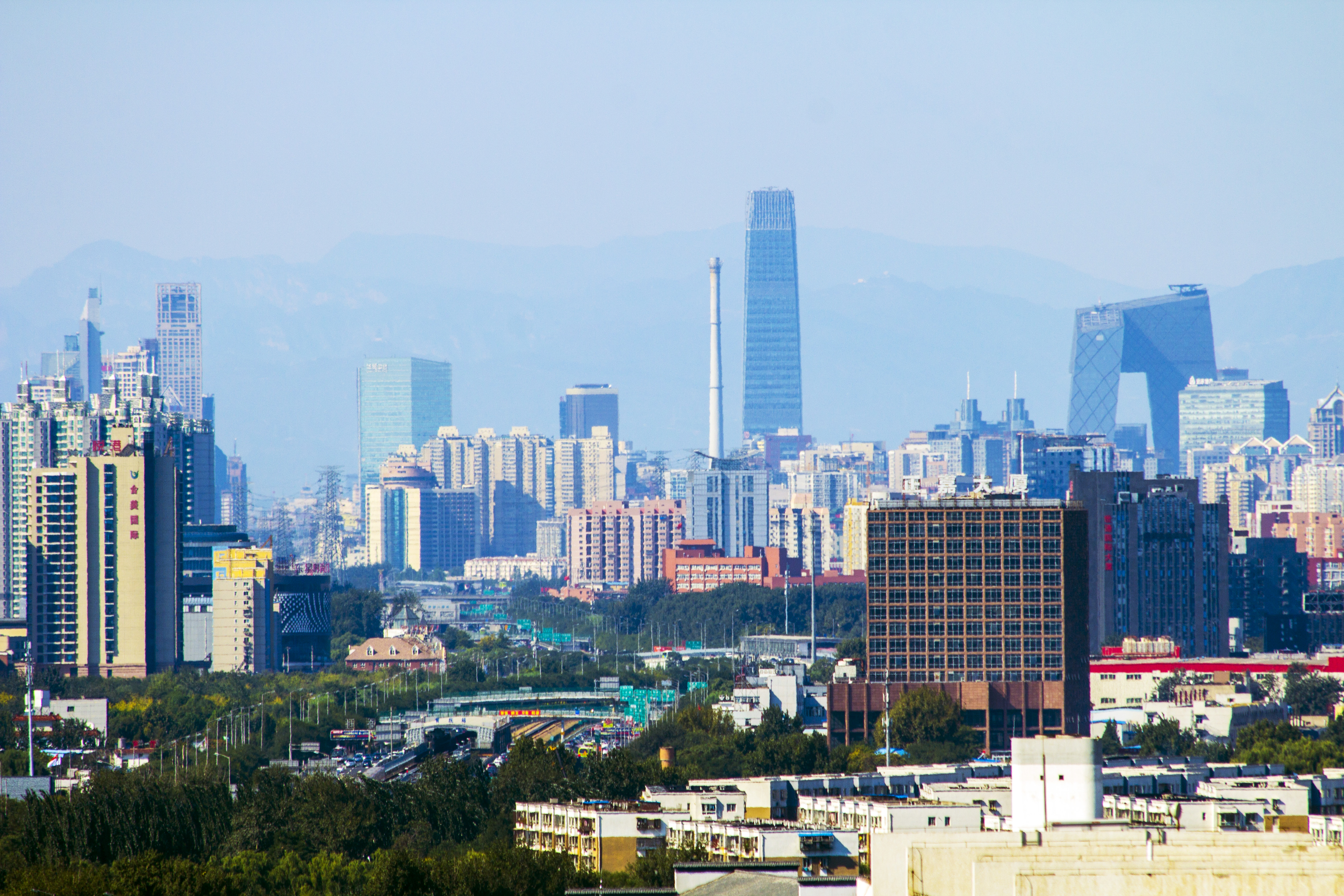 Guanzhuang and other stations view from Tongzhou